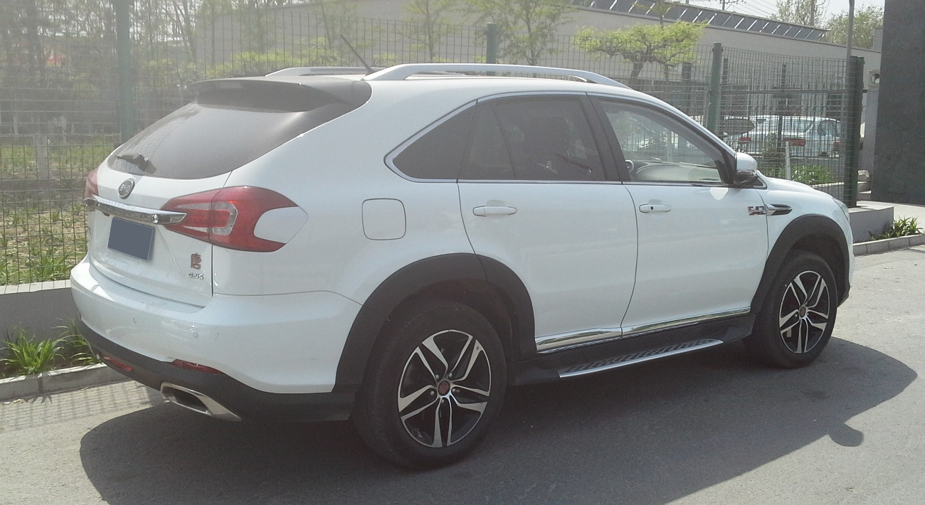 BYD Tang photographed in Beijing, China.